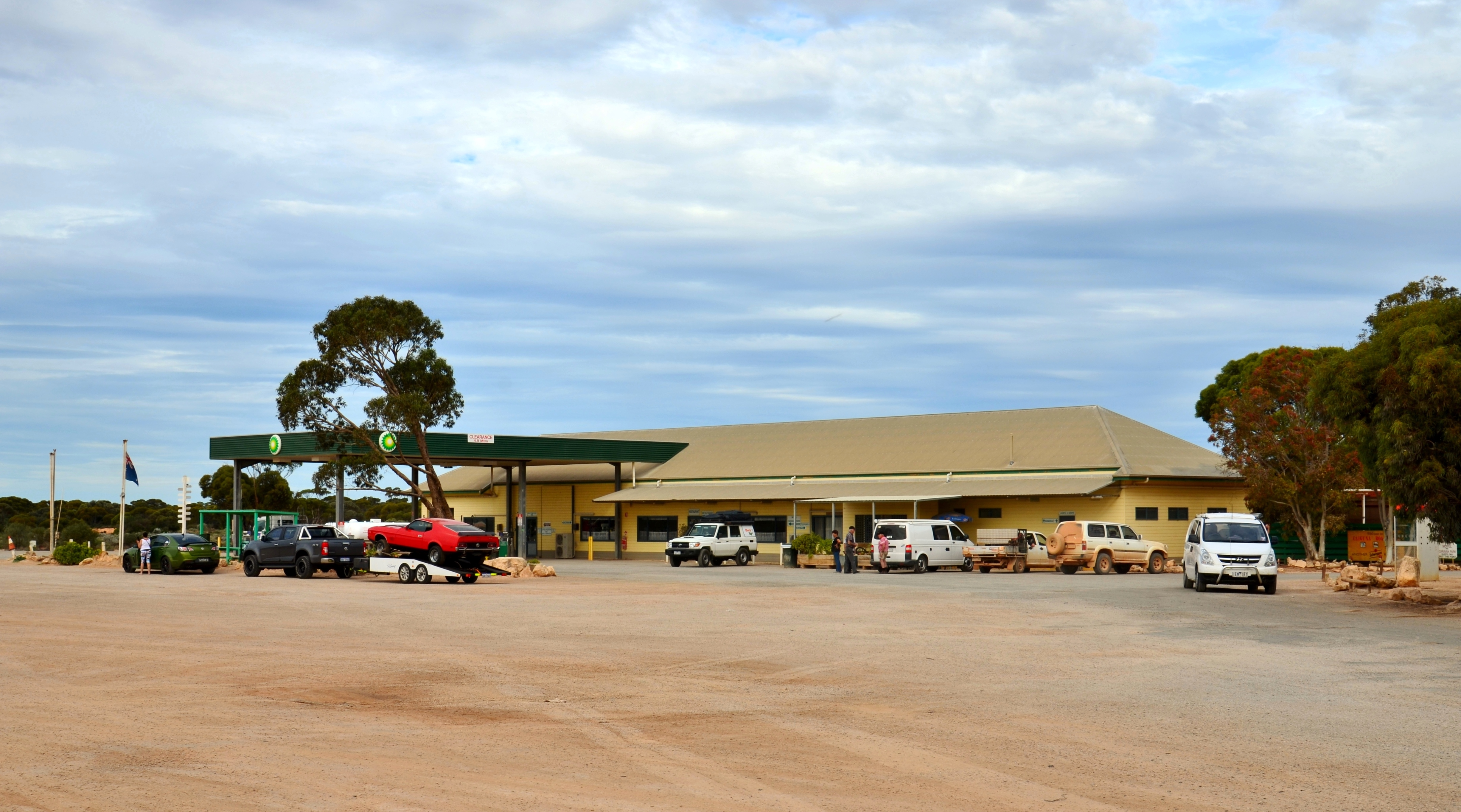 View of the roadhouse at Caiguna, Western Australia.